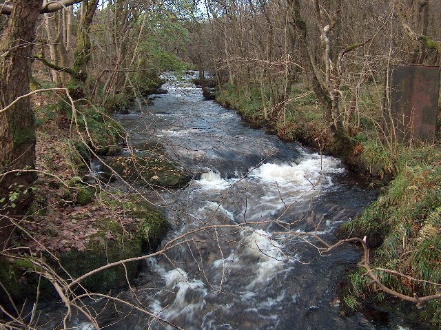 Allander Water, Mugdock Wood, Nr. Milngavie. Late autumn afternoon.